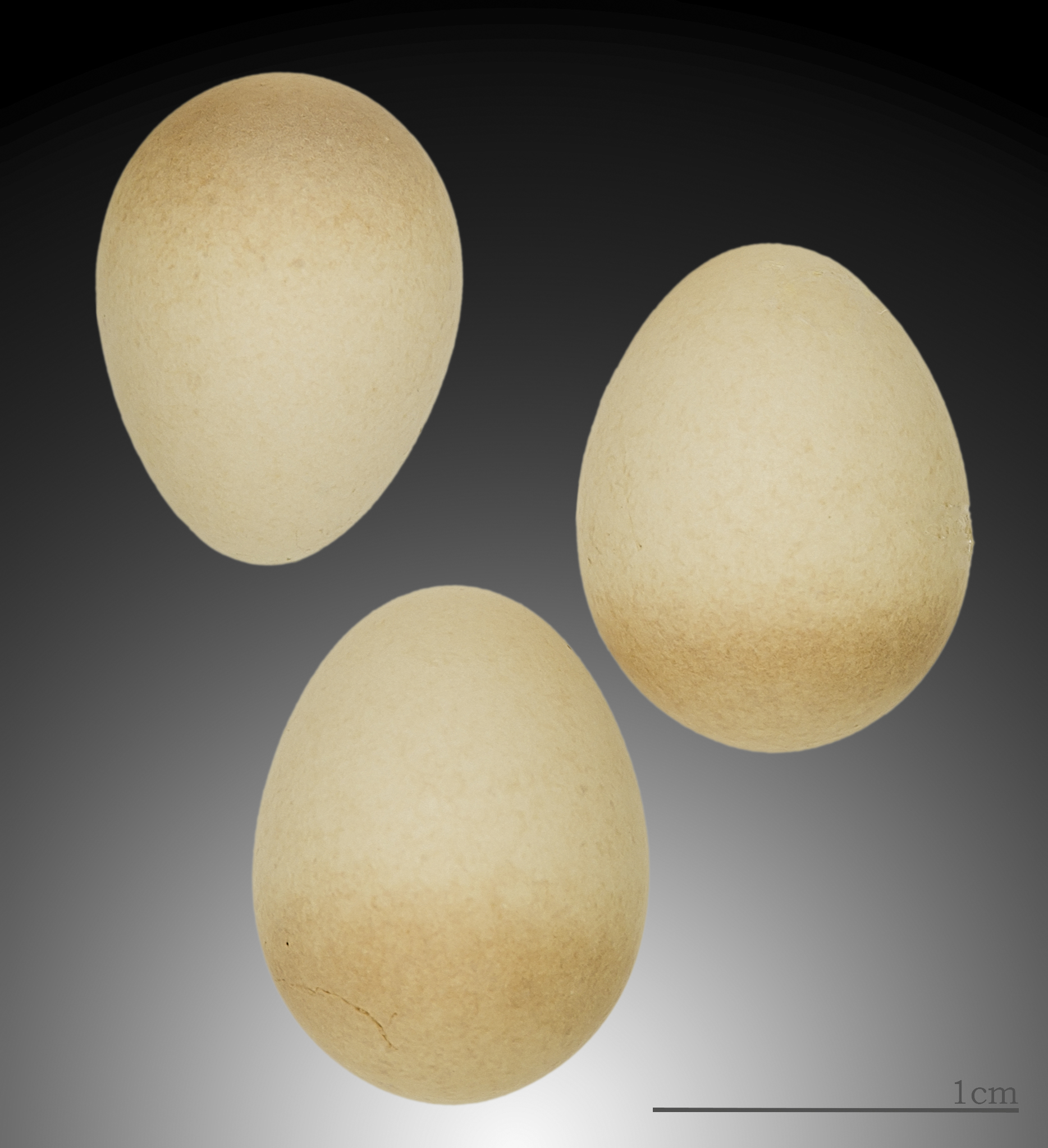 Egg of Tenerife Goldcrest. Collection of René de Naurois / Jacques Perrin de Brichambaut.